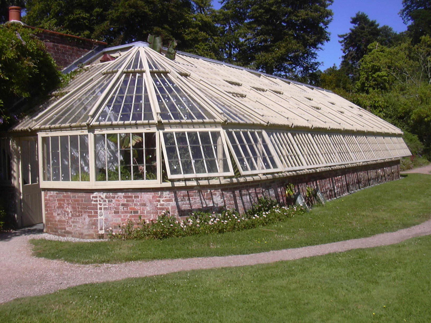 Greenhouse restored by the National Trust at Greenway, Devonshire.